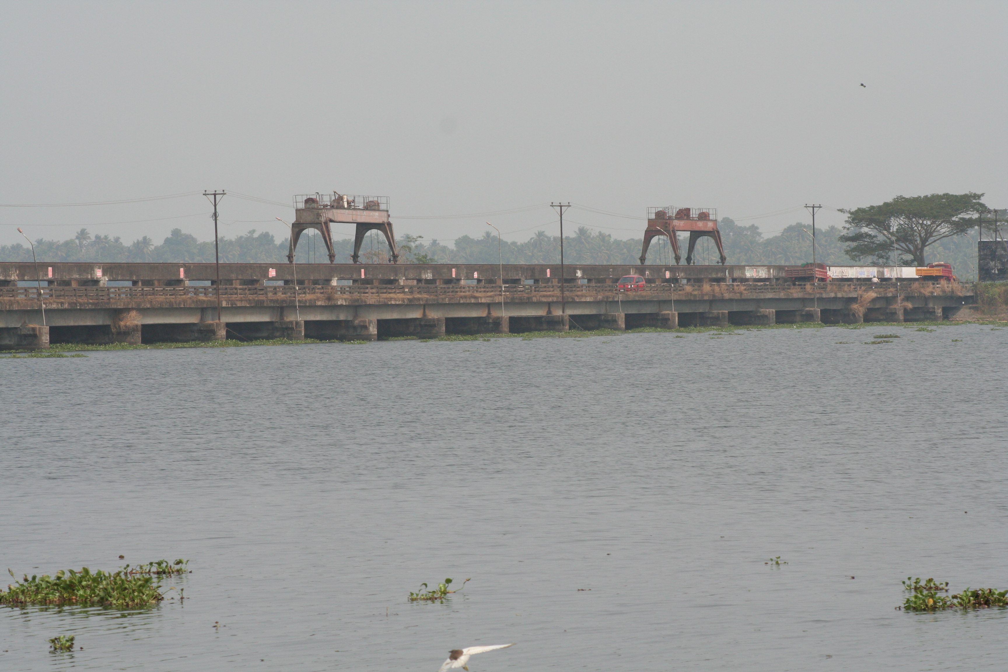 The Thanneermukkom Bund (Thannermukkom Salt Water Barrier) prevents tidal action and intrusion of salt water into the Kuttanad low-lands across Vembanad Lake in the state of Kerala, India.